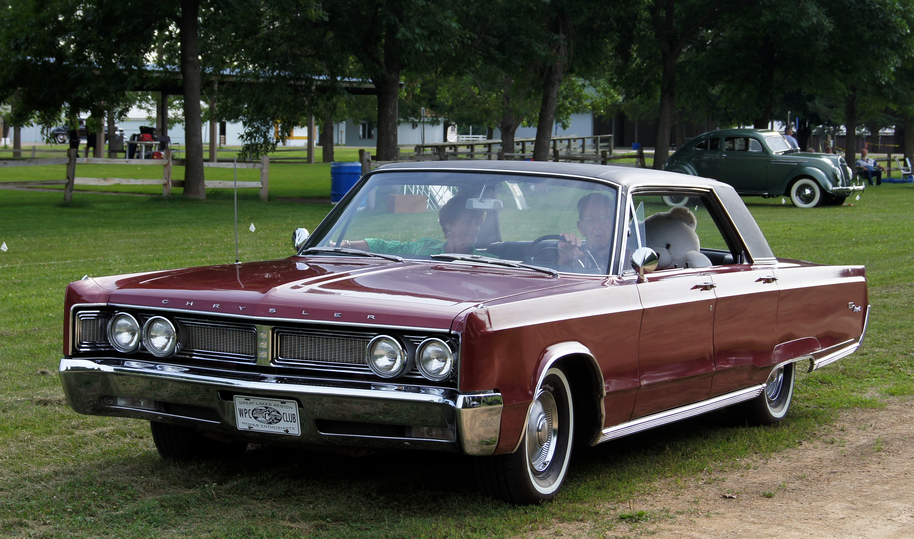 1st Combined Convention 28th Annual National DeSoto Club Convention & 44th Annual Walter P.Chrysler Club Convention July 17 - 21, 2013 Lake Elmo, Minnesota Click link below for more car pictures